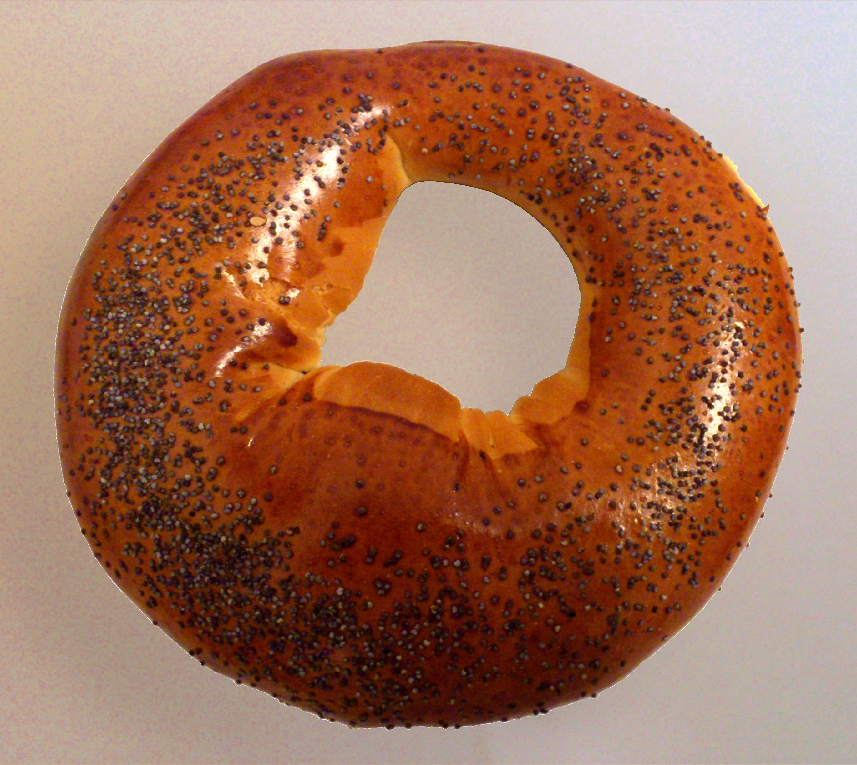 Typical Bublik topped with poppy seeds, purchased in Kiev, Ukraine